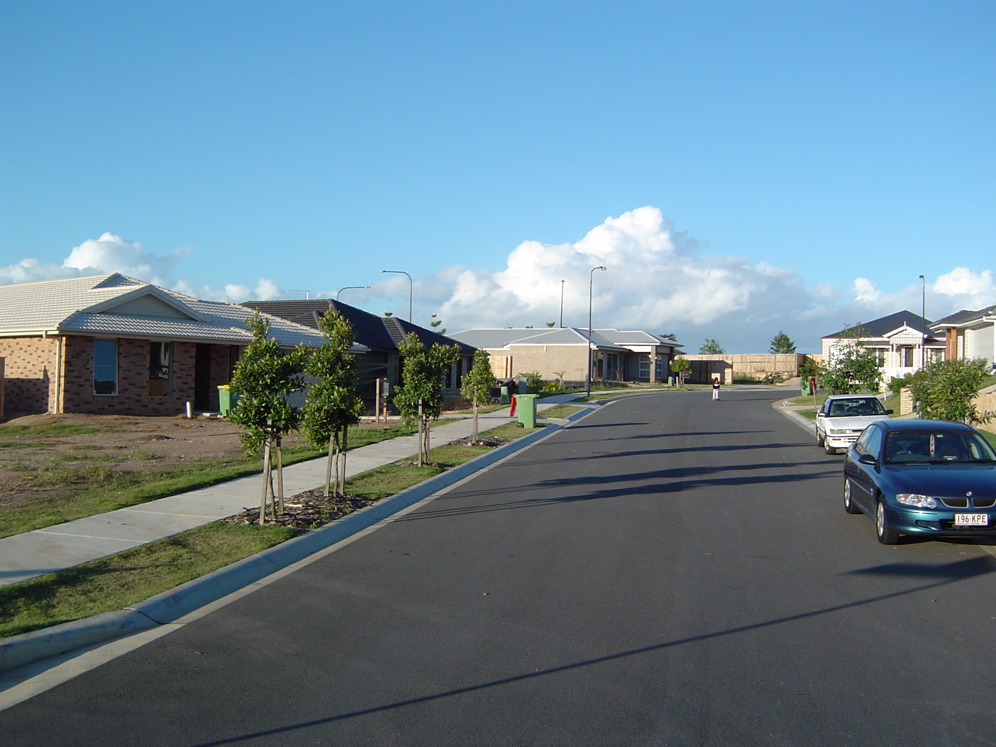 Photo of new housing estate at Topaz Crescent in Logan Reserve, Logan City, Queensland, Australia.